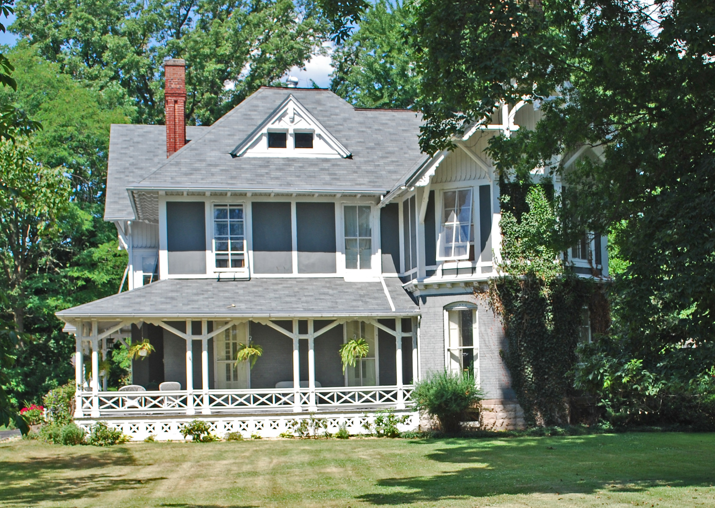 House, East River Rd Historic District, Grosse Ile MI